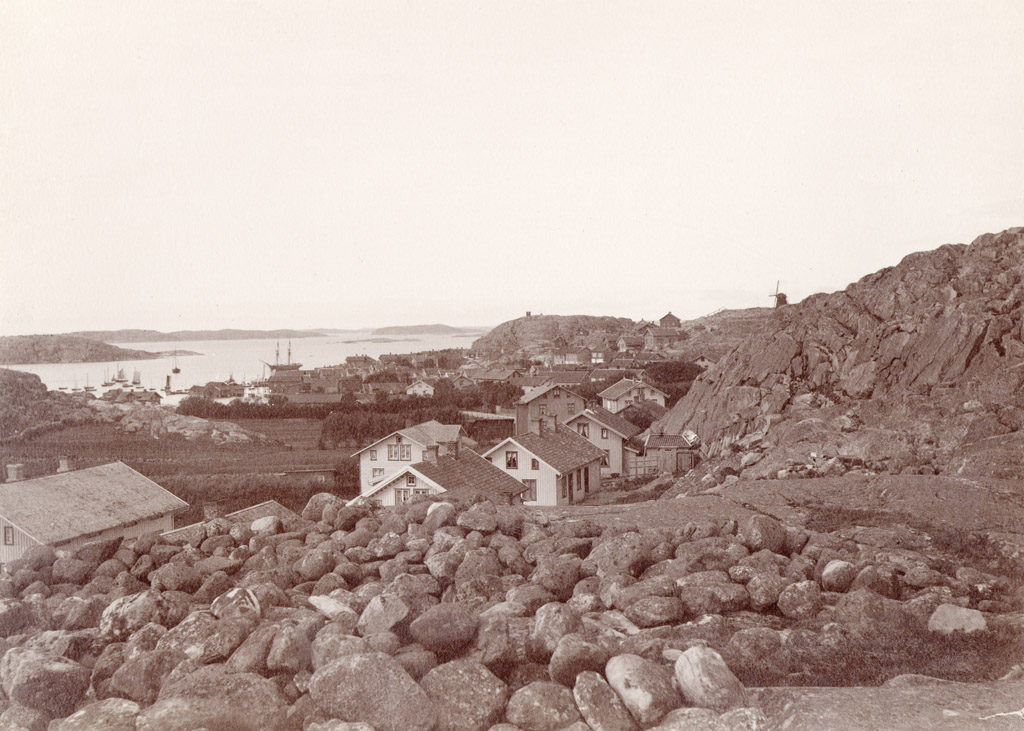 View over Lysekil towards south. Vy över Lysekil mot söder. Parish (socken): Lysekil Province (landskap): Bohuslän Municipality (kommun): Lysekil County (län): Västra Götaland Photograph by: Carl Curman Date: 1880s Format: Albumen print Persistent URL: Read more about the photo database (in english)